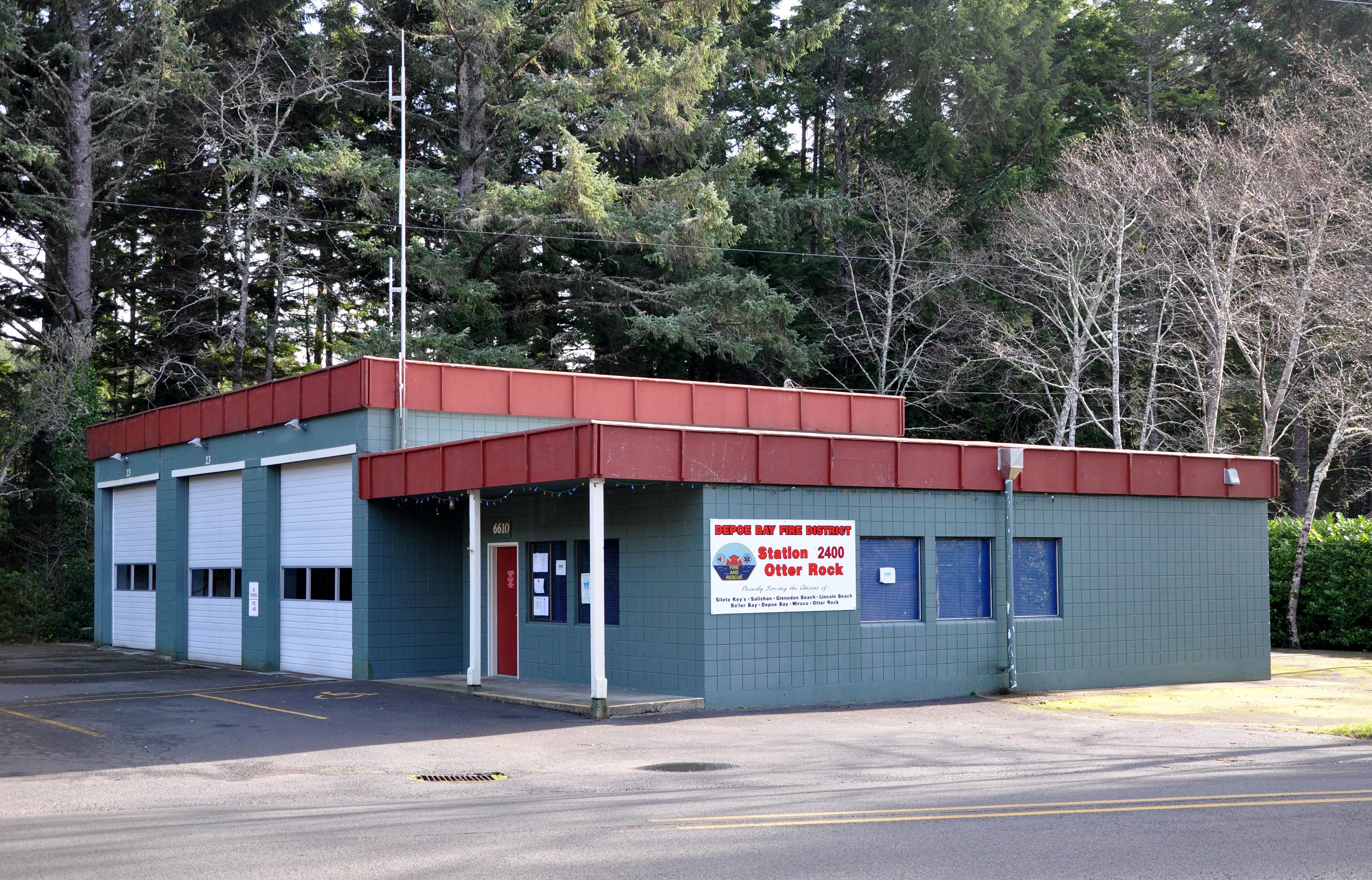 Fire station in Otter Rock in the U.S. state of Oregon. Otter Rock is along U.S. Route 101 near the Pacific Ocean.